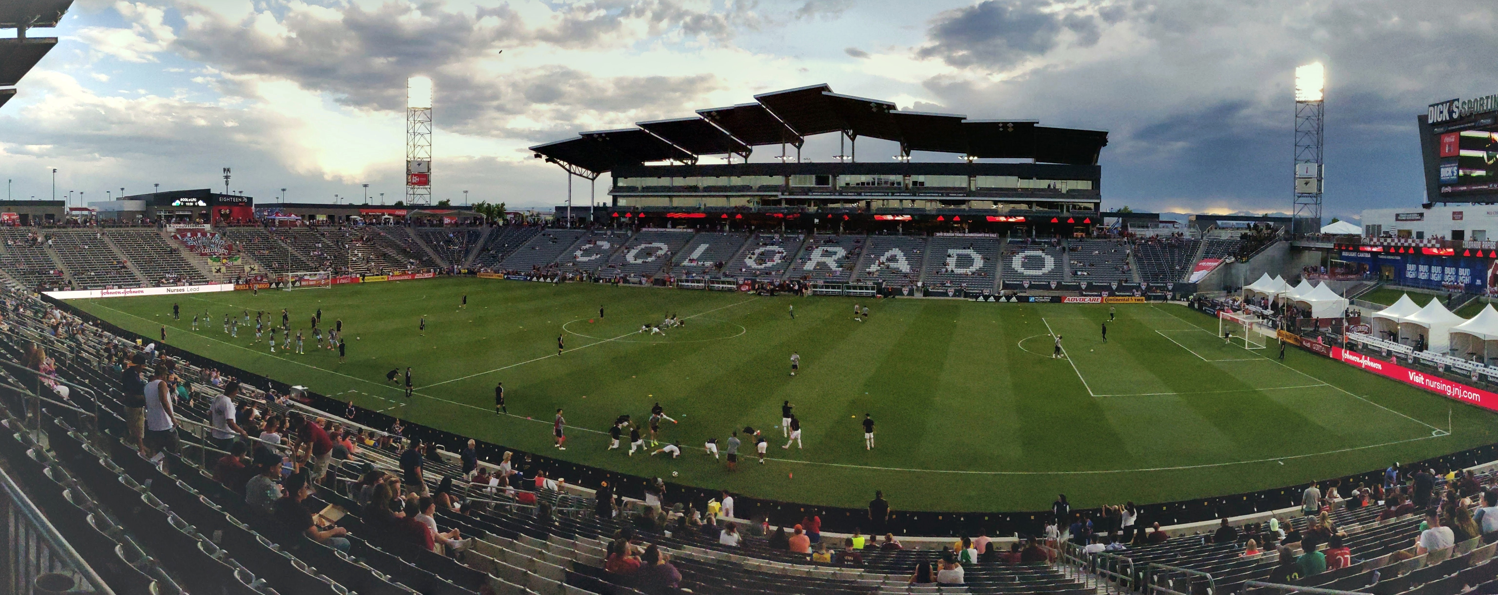 Dick's Sporting Goods Park looking west before a game against LAFC in June 2019.